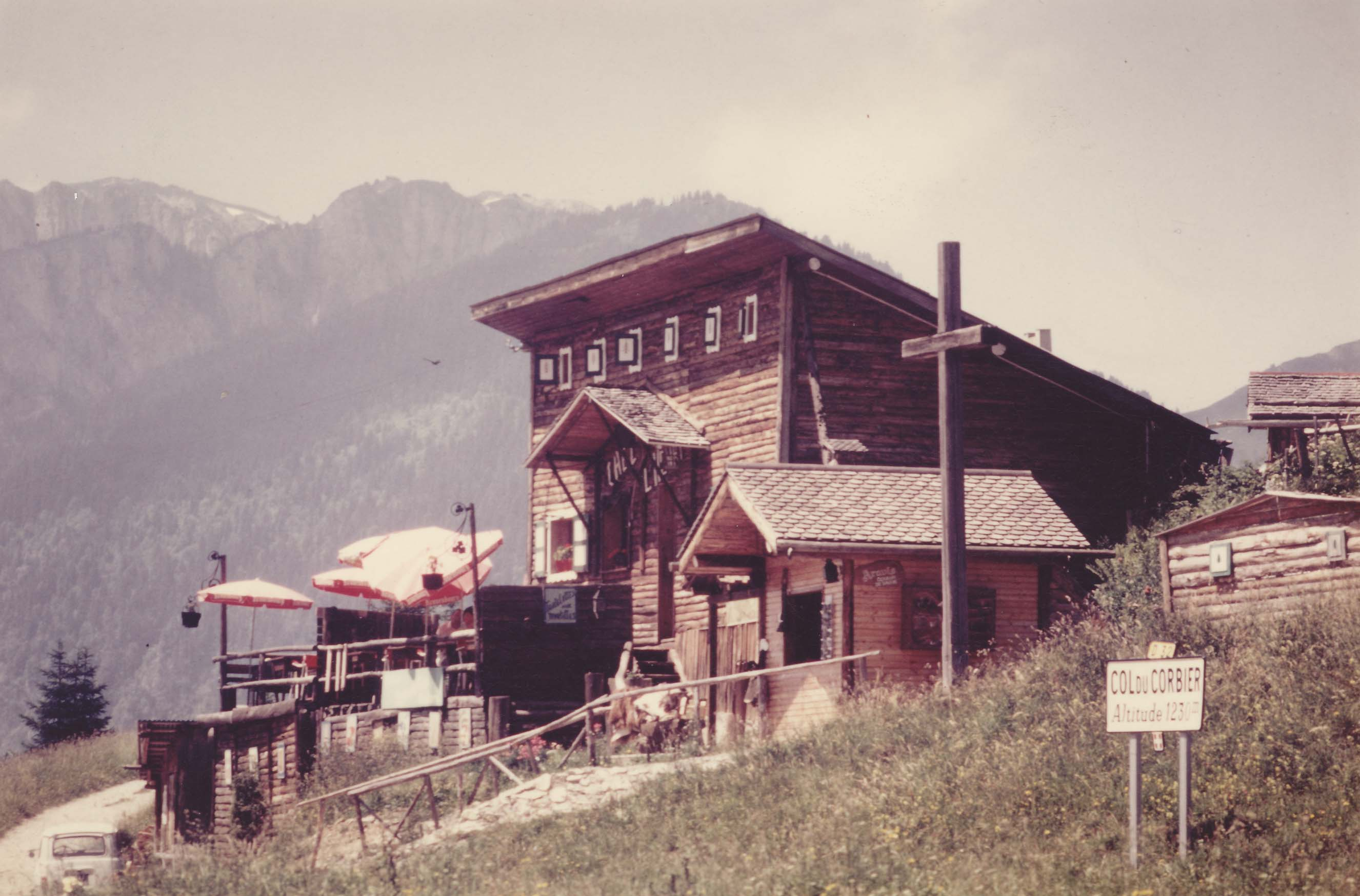 Col du Corbier, Haute-Savoie, France, restaurant "chez l'Henri"